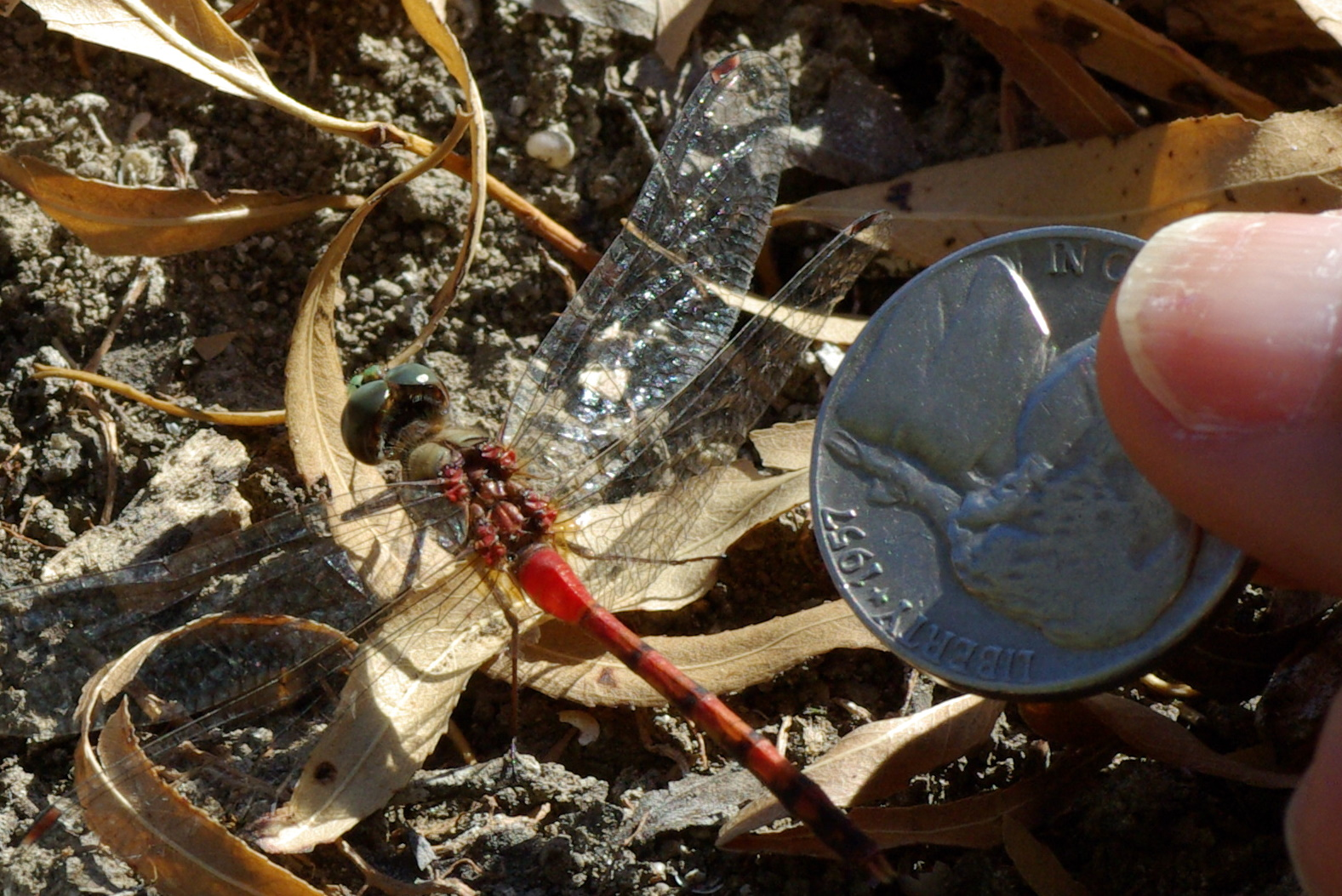 The Blue-faced Meadowhawk dragonfly (Sympetrum ambiguum) is not much larger than a nickel.